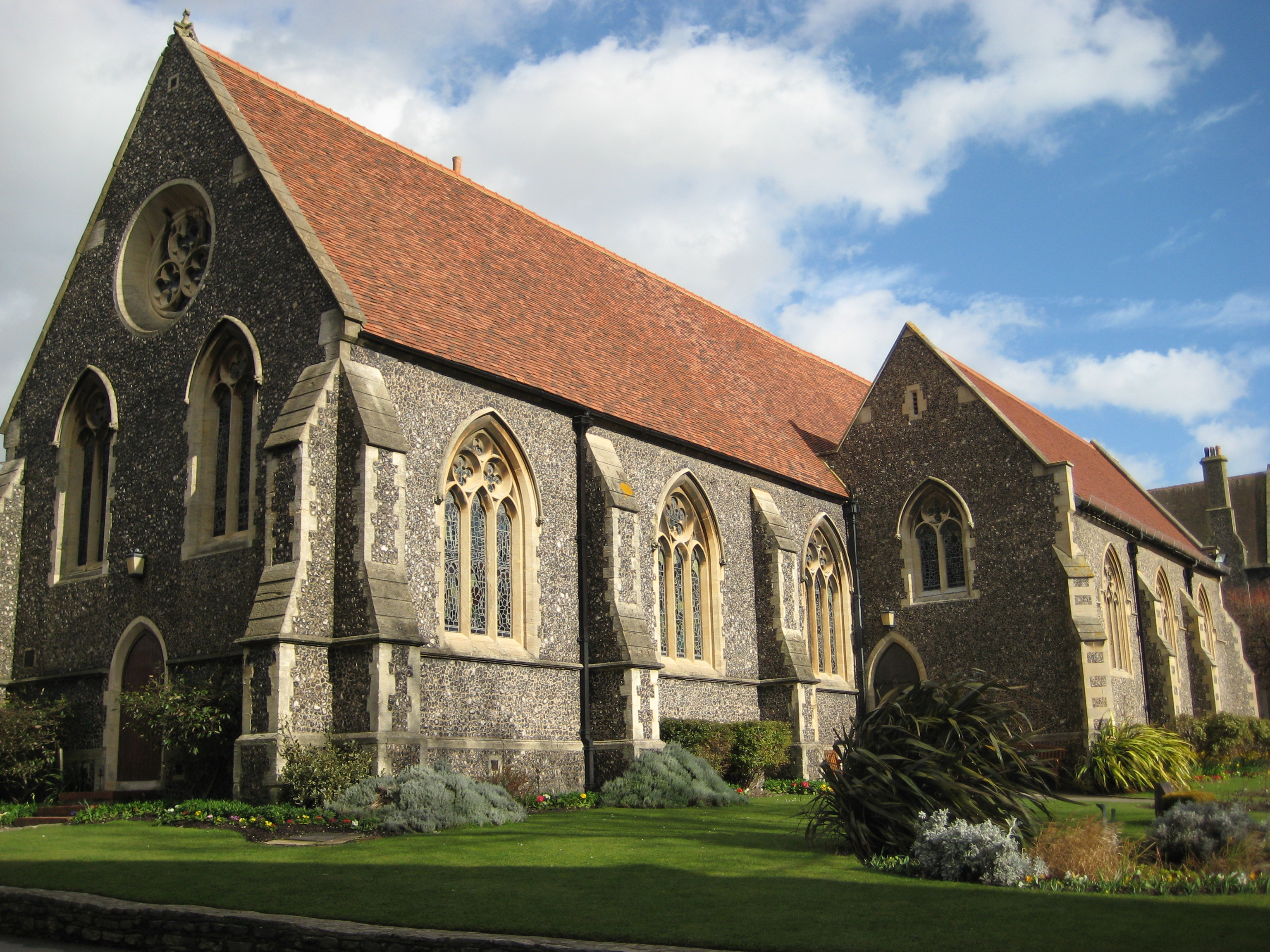 Brighton College Chapel from West End